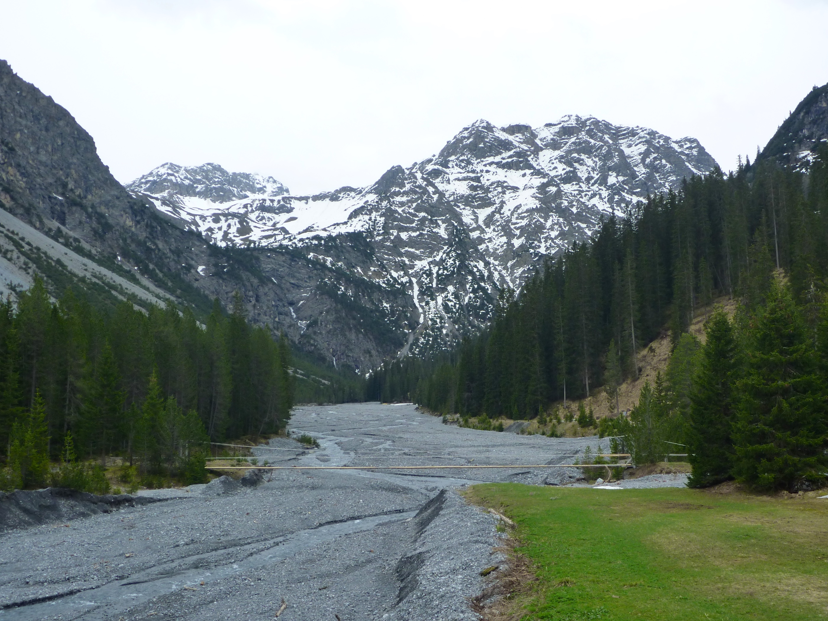 River "Welschtobelbach" at Arosa/Switzerland. This section was used as a snow-covered airstrip in the winter 2015